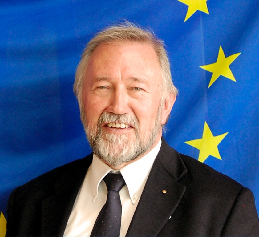 Manfred Neun Photo with European Flag